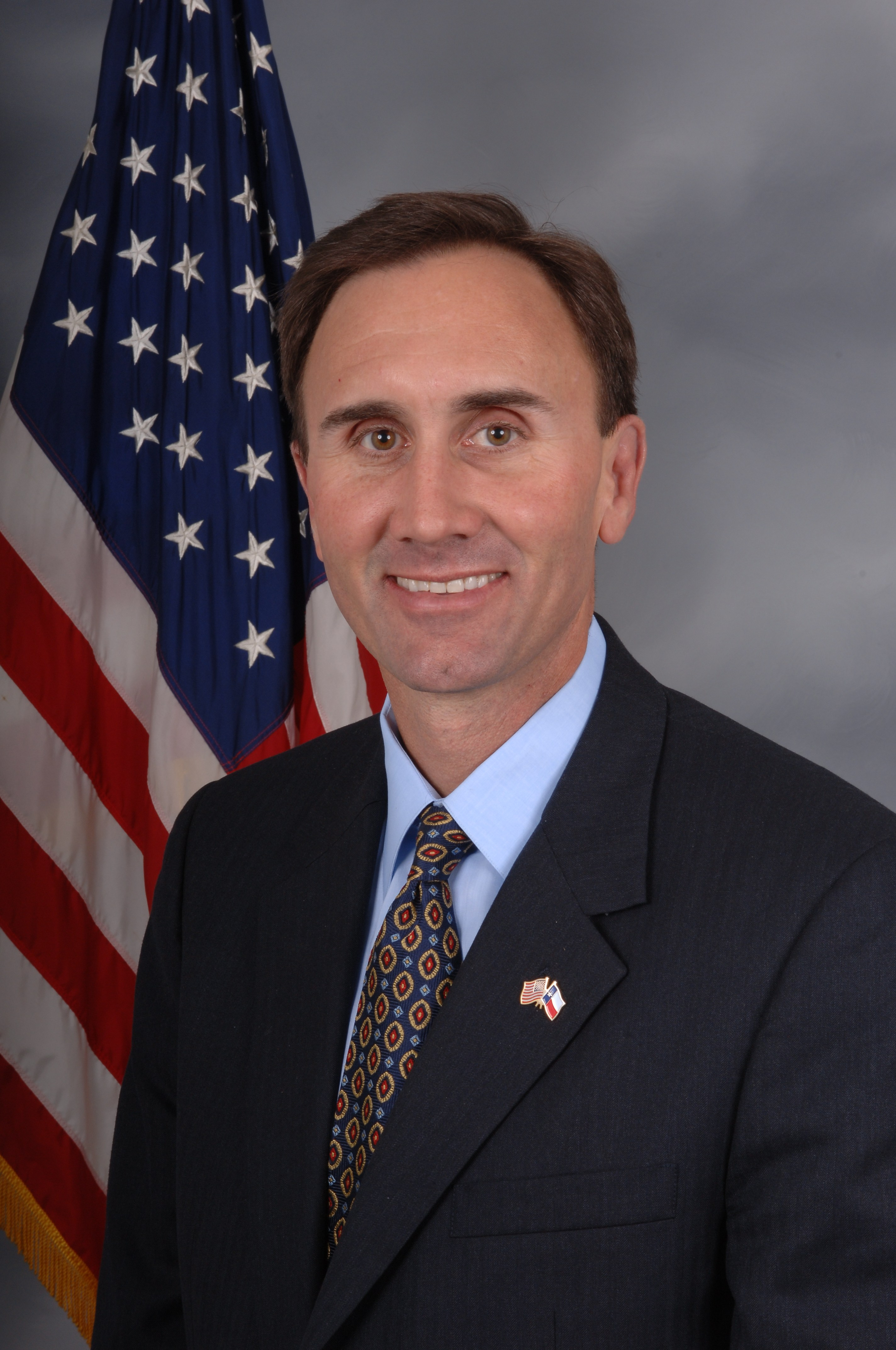 Pete Olson, member of the United States House of Representatives from Texas.